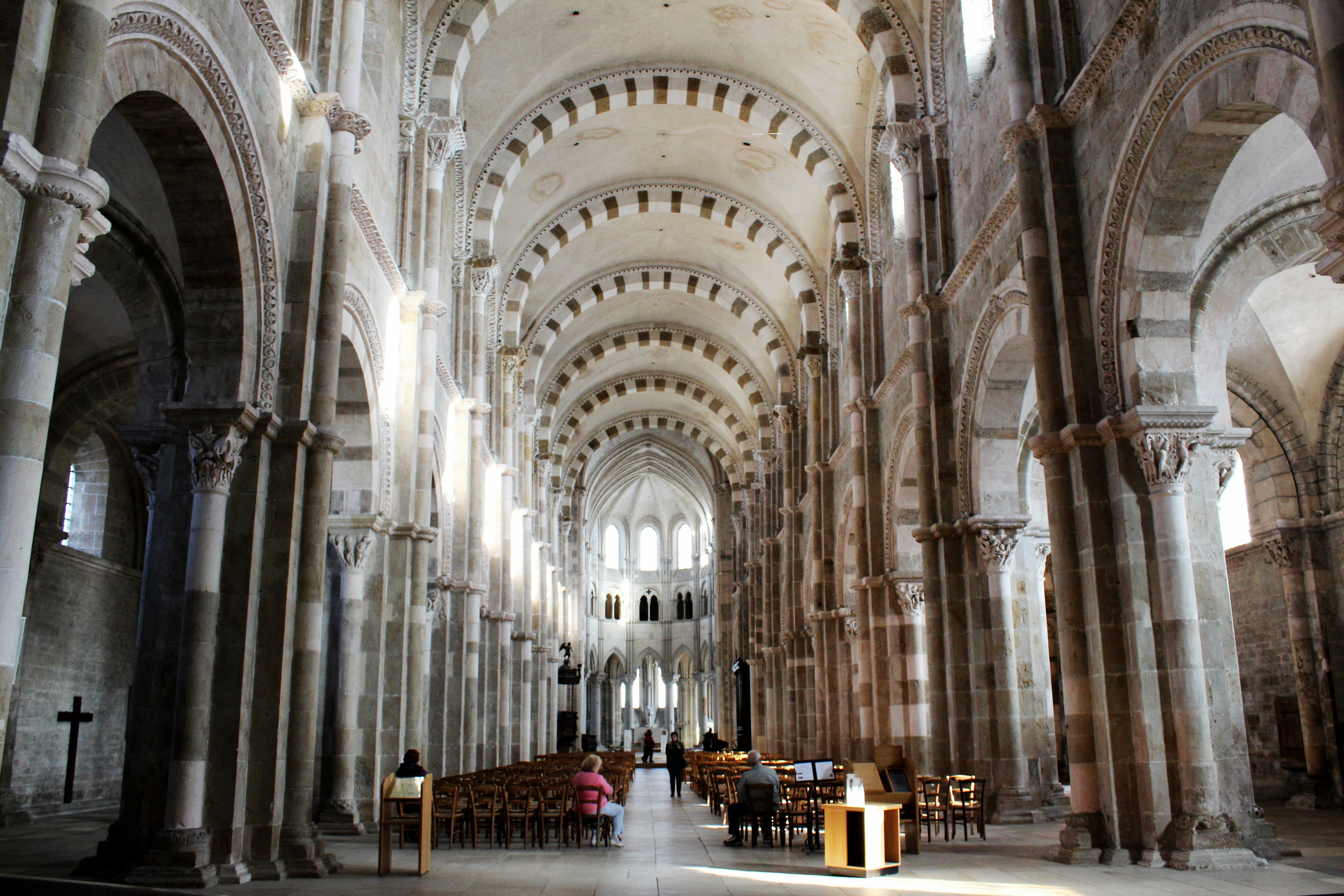 Vezelay Basilica